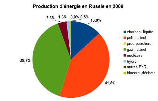 Russian energy production 2009 data source : IEA